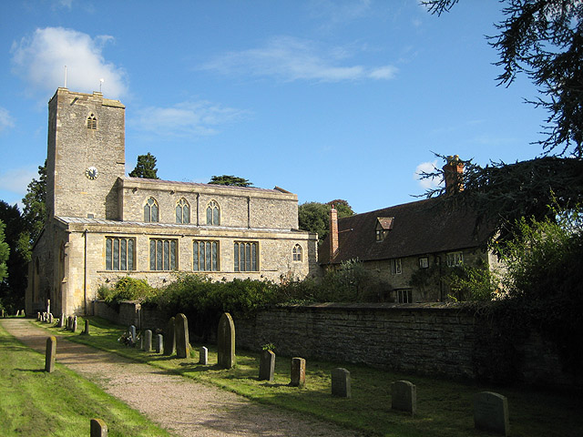 Priory church of St Mary, Deerhurst, Gloucestershire, seen from the southwest, with Priory Farmhouse on the right